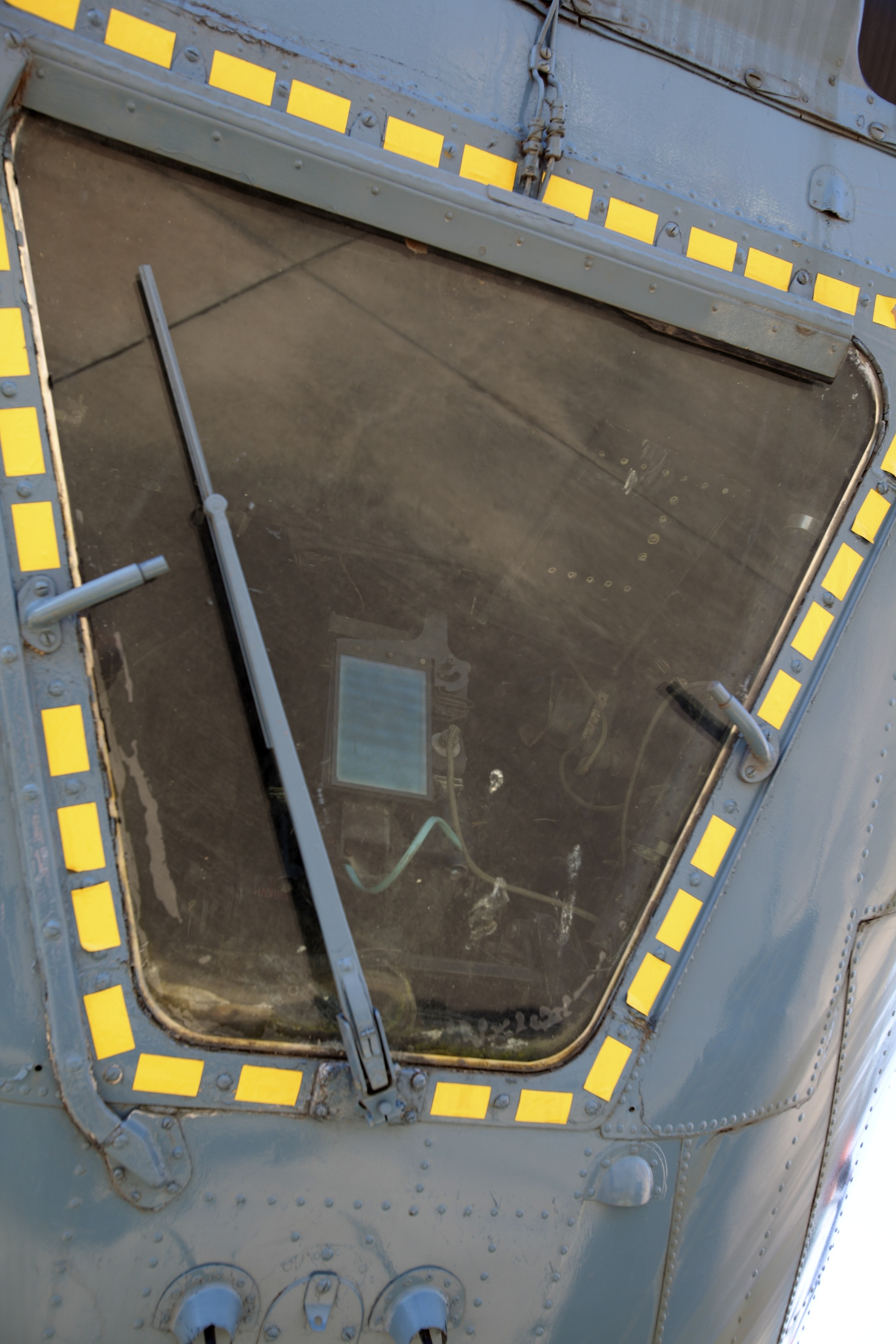 Bomb Aimer Window and Bomb Sight on SAAF 1721 Avro Shackleton SAAF Museum Swartkop Pretoria